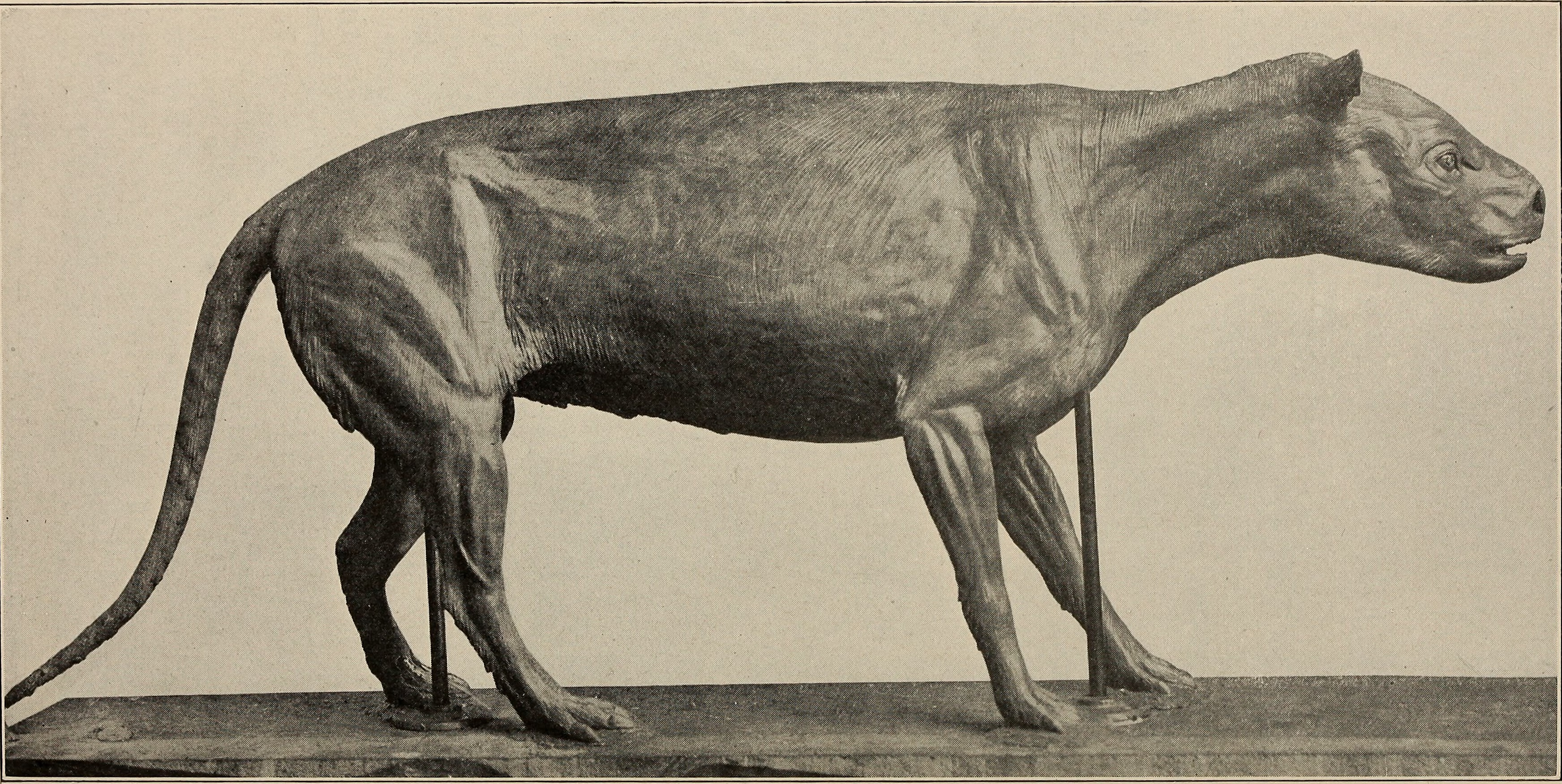 Title: The American journal of science Year: 1880 (1880s) Authors: Subjects: Science Publisher: New Haven : J. D. & E. S. Dana Text Appearing Before Image: 310 M. R. Thorpe—A Neiuly Mounted Eporeodon. Text Appearing After Image: '